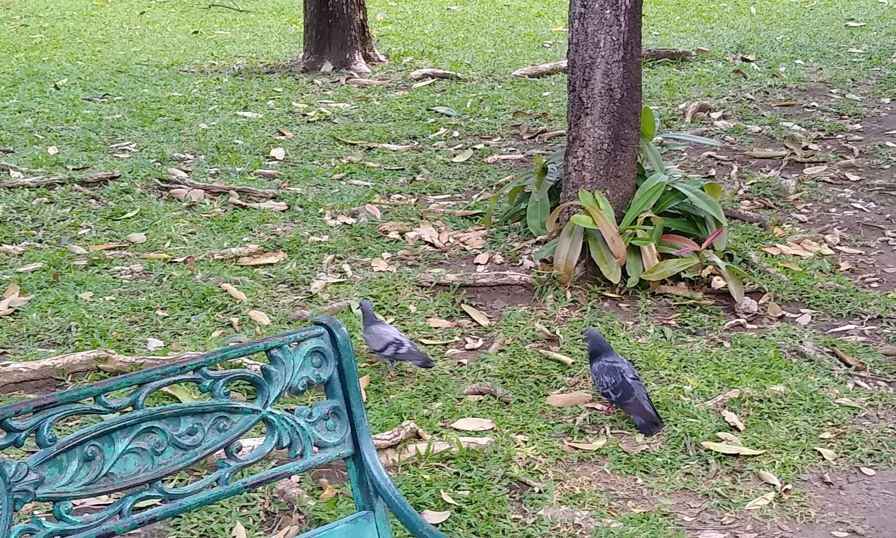 Santiphap Park, Bangkok